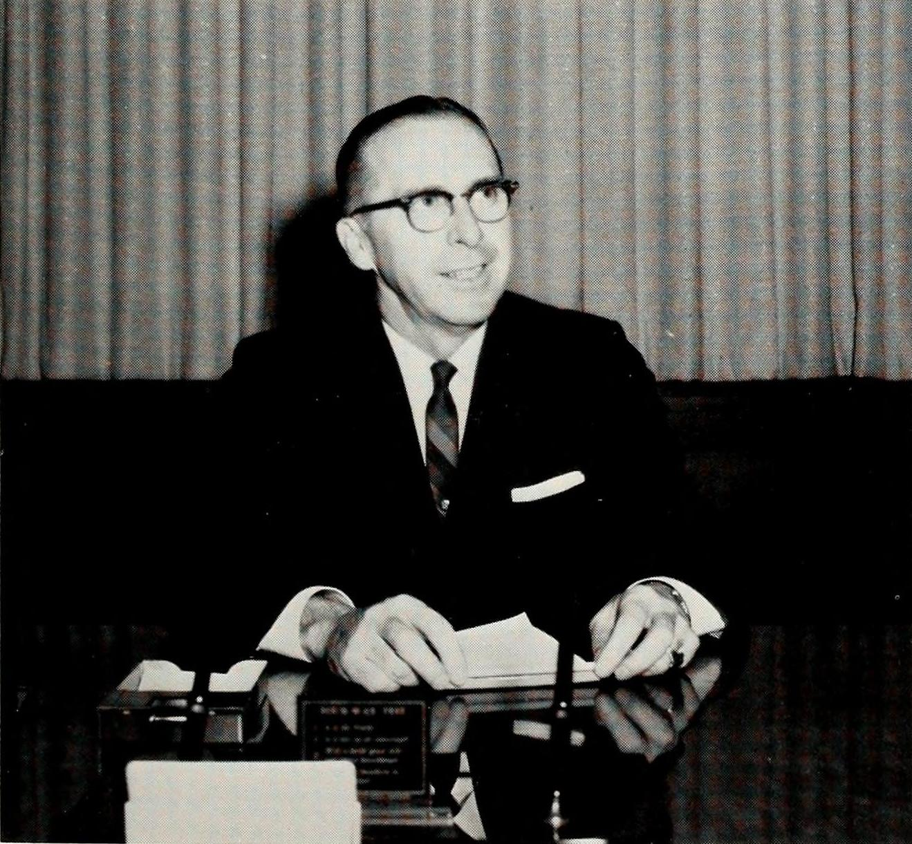 A scanned page from the 1963 edition of Reveille, the yearbook of Mississippi State University